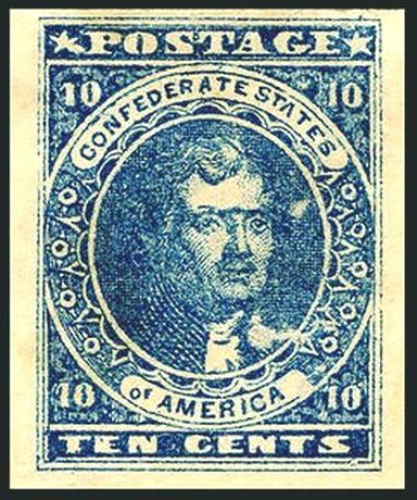 Second general issue CSA stamp, 1861. Category:United States history images